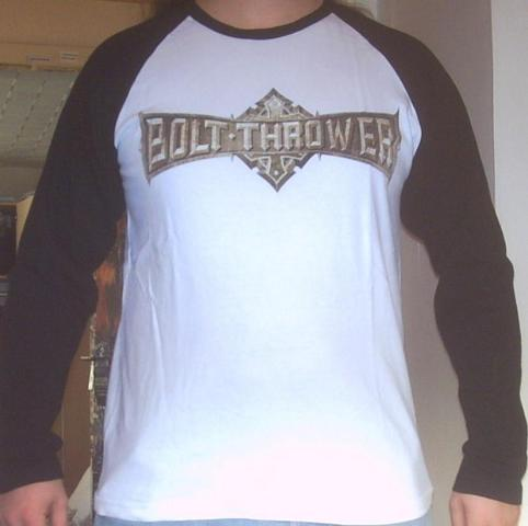 Picture of a Bolt-Thrower-Longsleeve